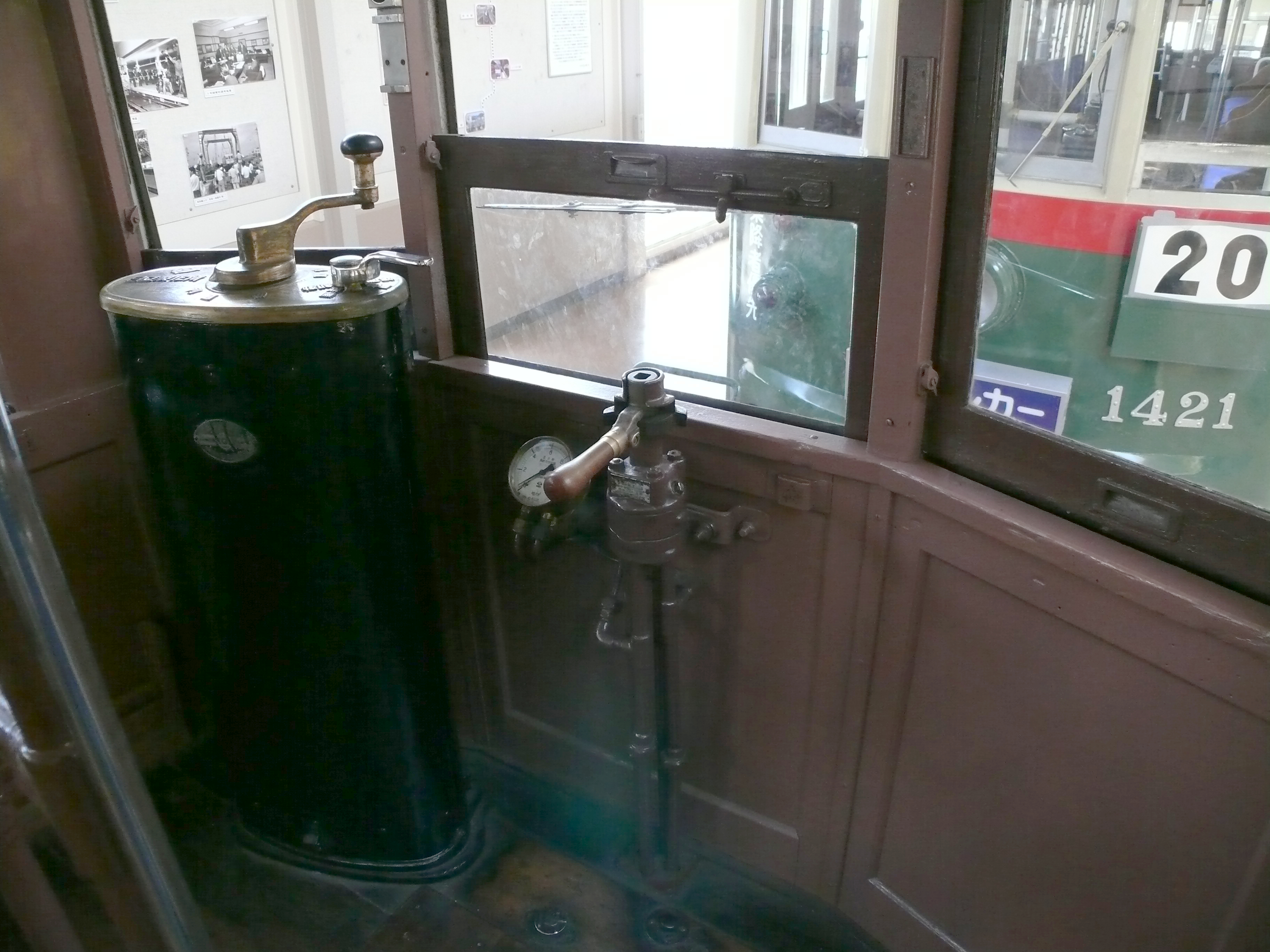 Nagoya City Tram & Subway Museum.